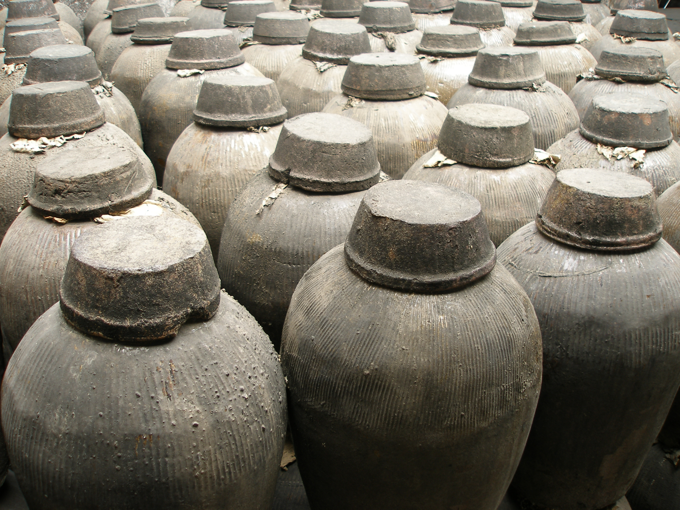 Rice wine, aging in jars, Wuzhan, China 2006